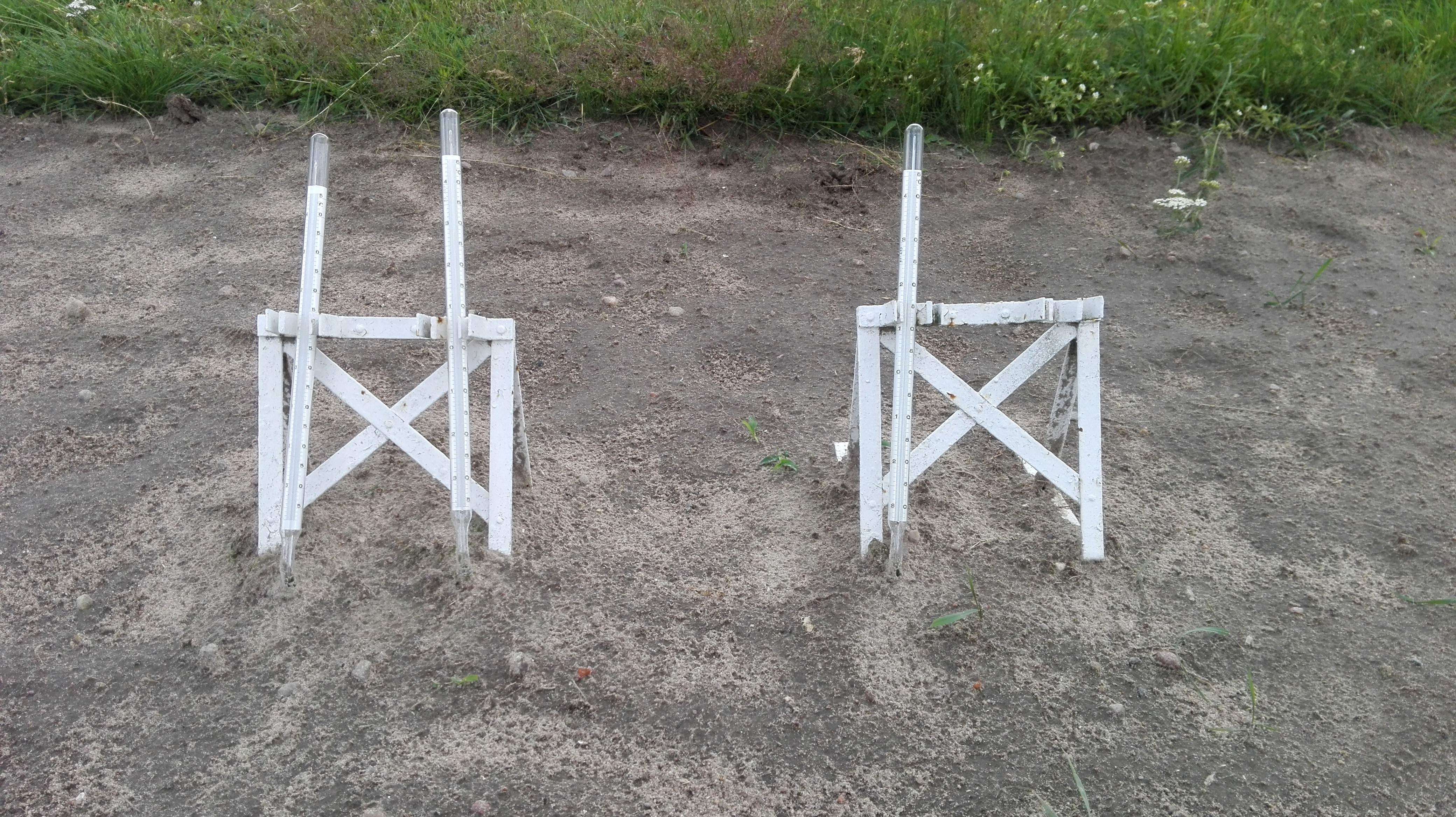 Soil thermometers (Skierniewice, Poland).